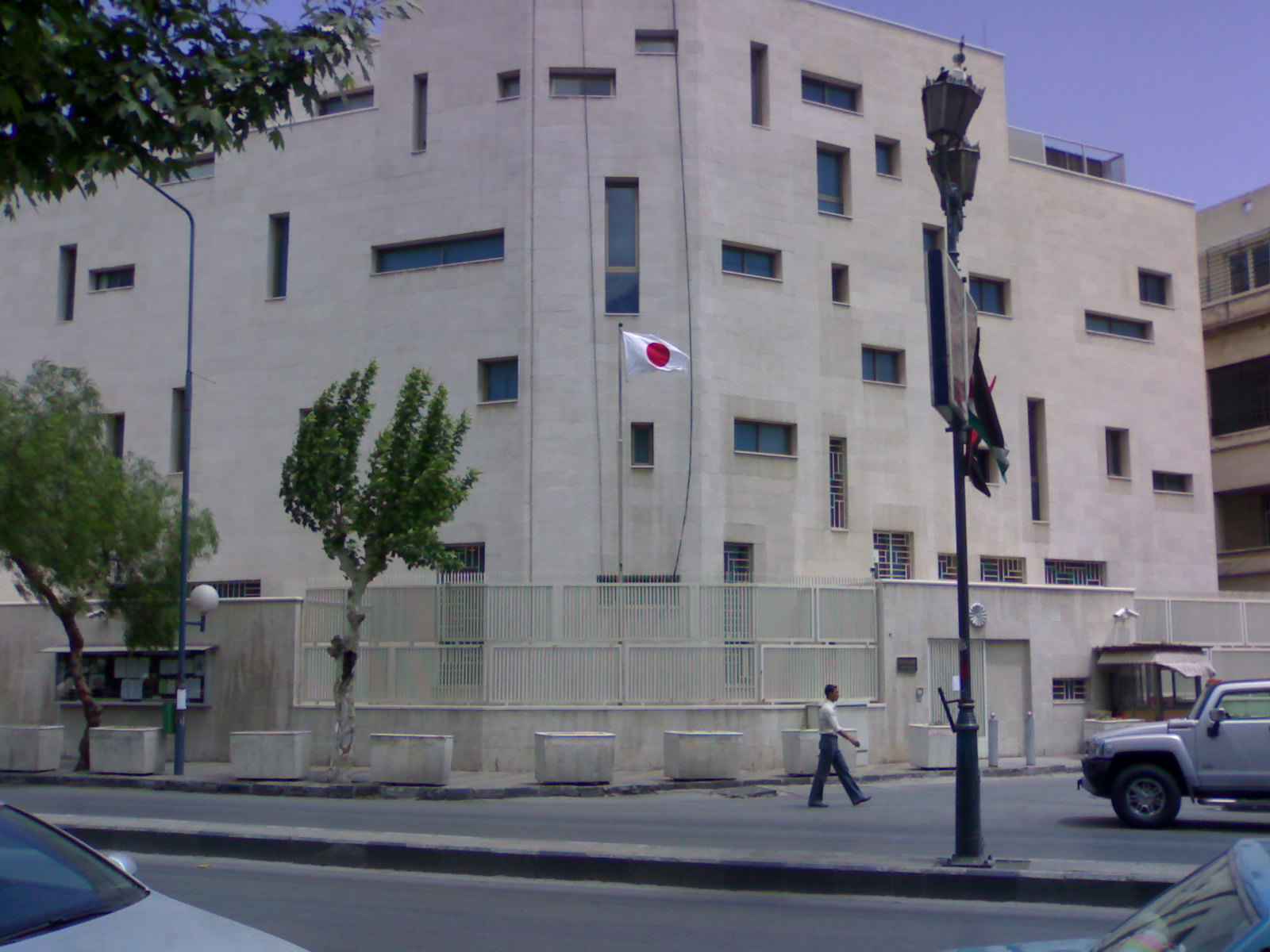 Japanese Embassy in Damascus